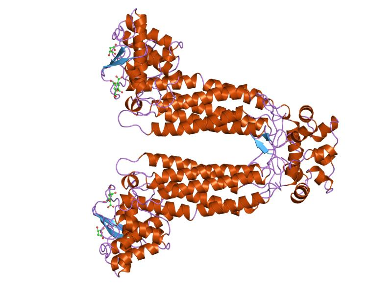 Cartoon representation of the molecular structure of protein registered with 1fup code.